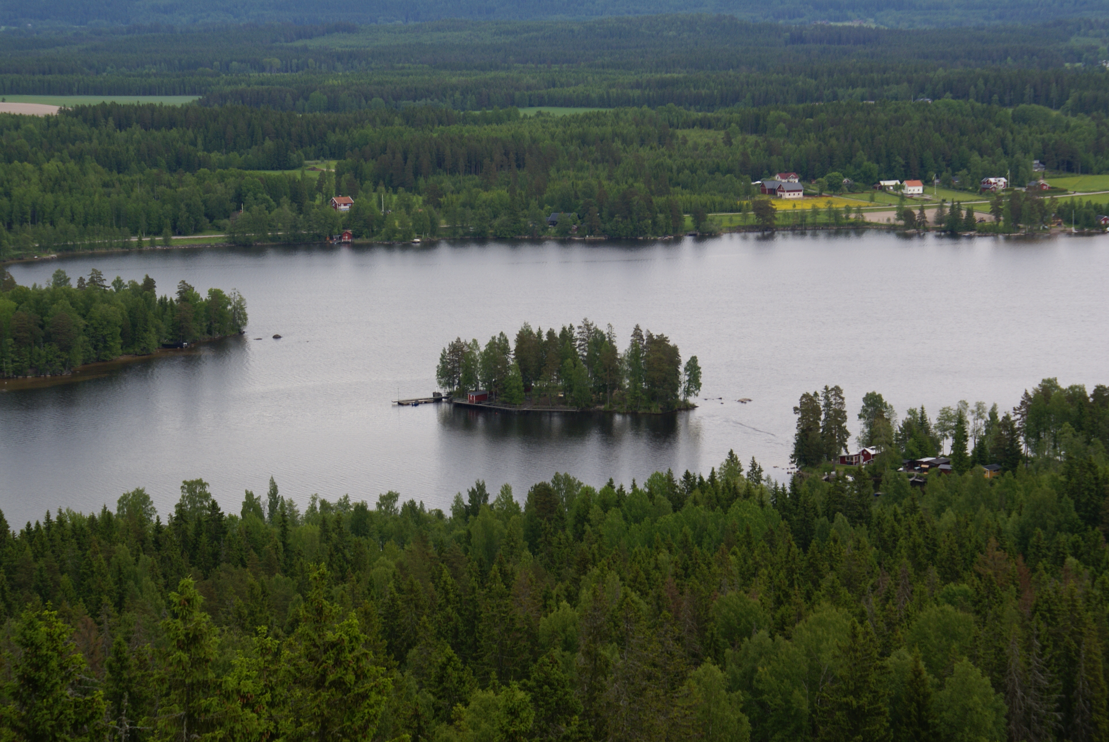 view of the island